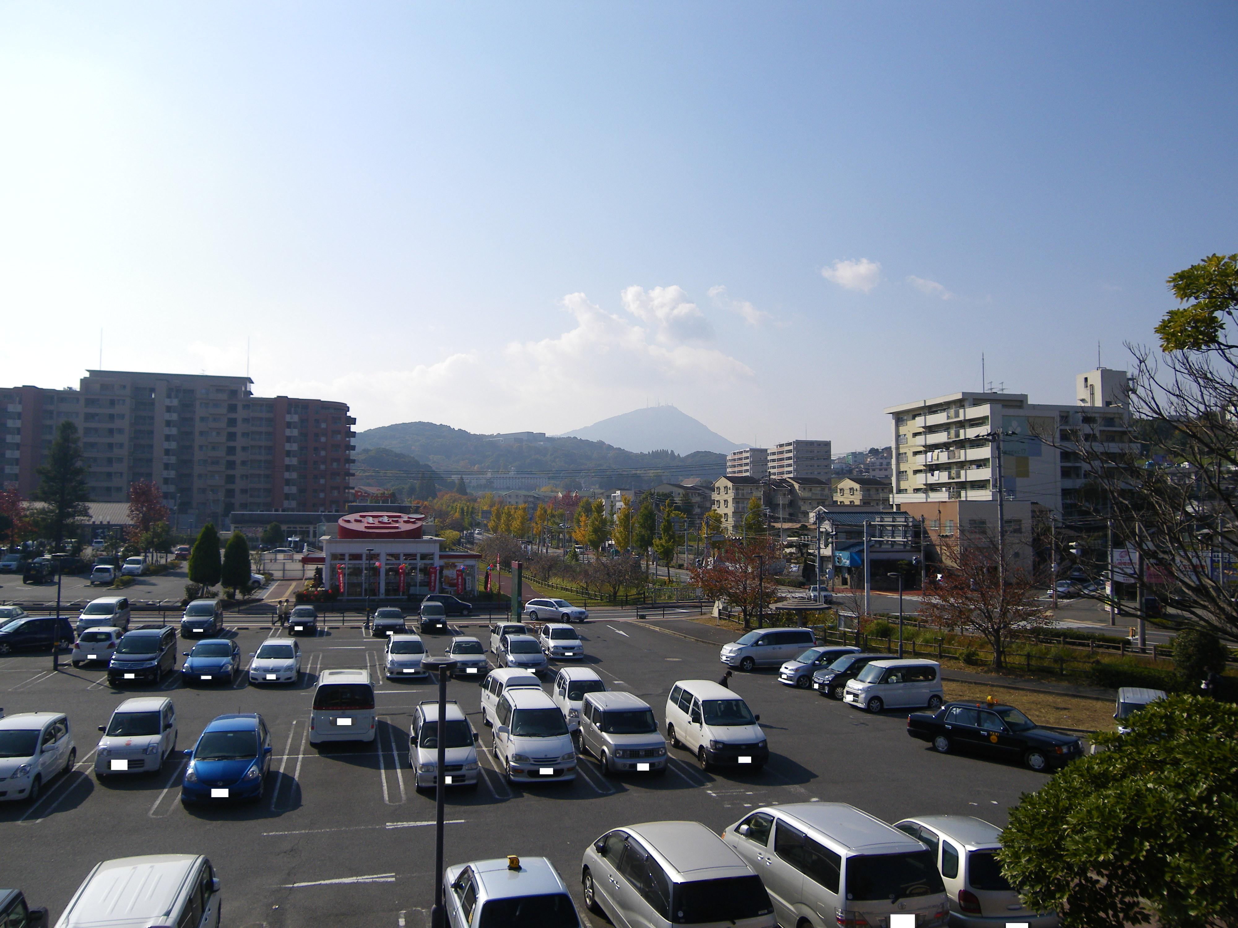 Sayagatani, Tobata, Kitakyushu.